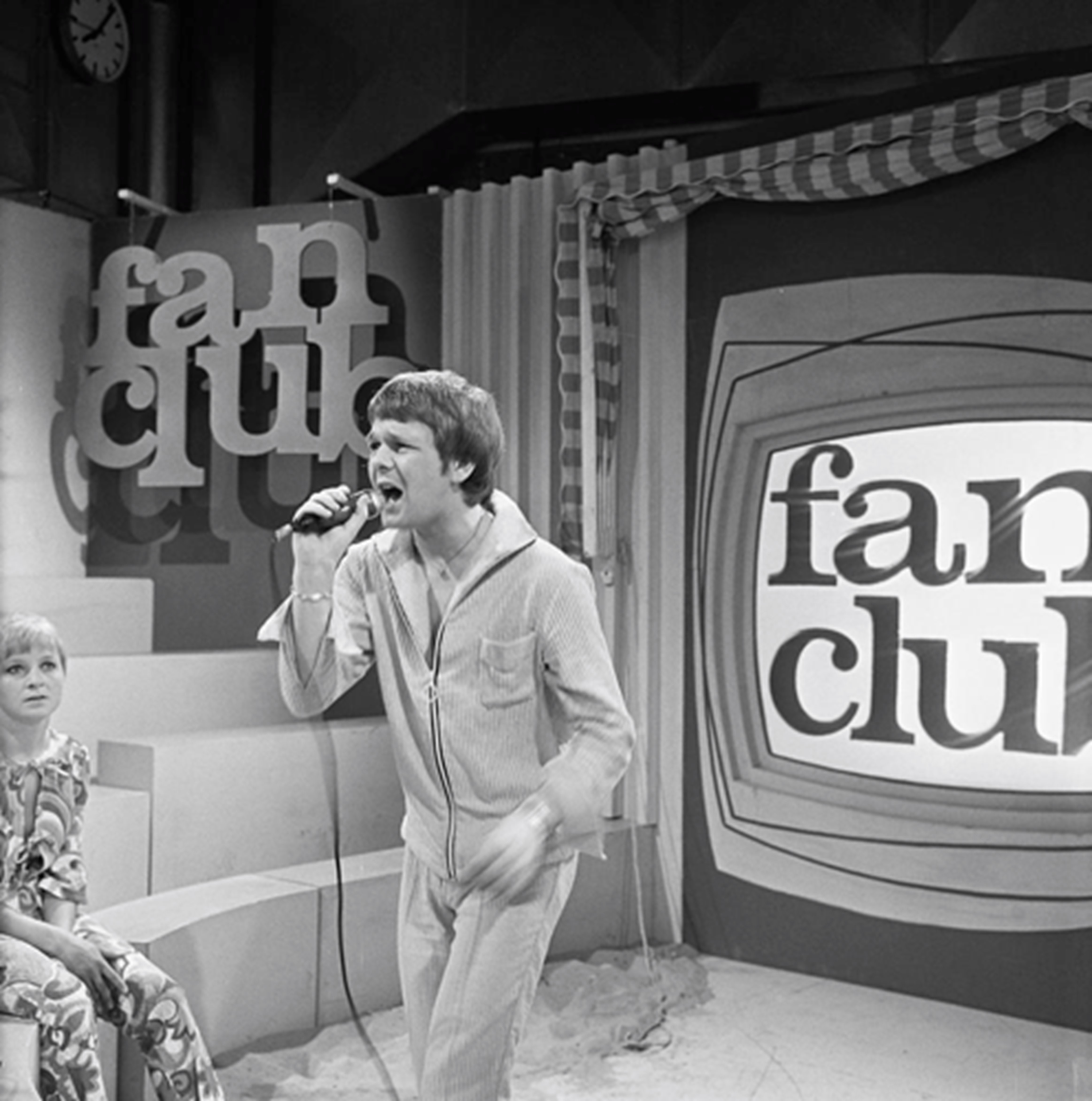 Graham Bonney singing Thank you baby and Happy together during recordings of the Dutch TV programme Fanclub, 27 May 1967